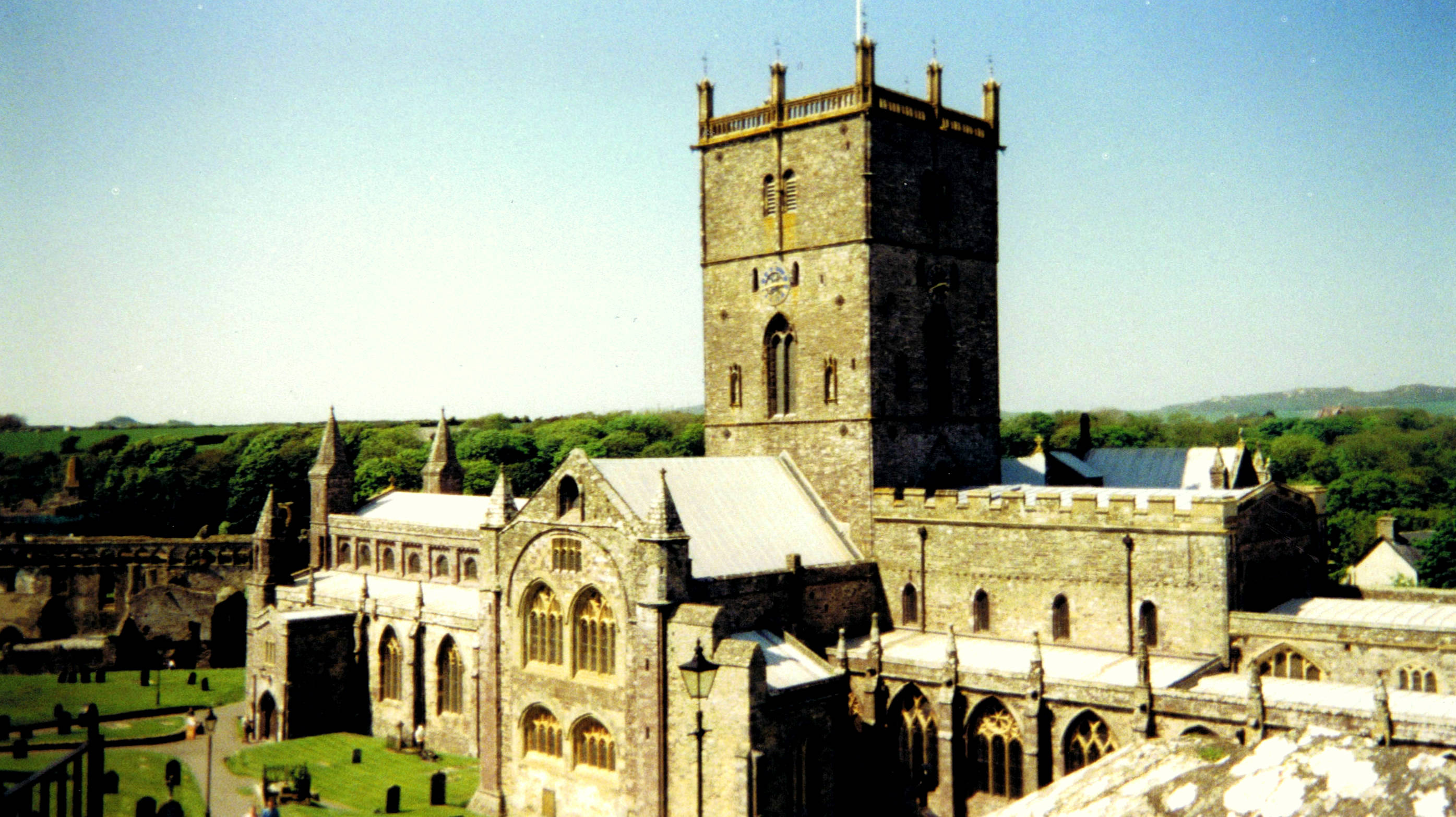 Bishop's Palace in St David's in Wales; May 1998.